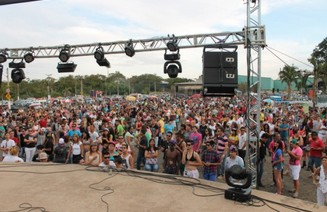 Citizen Space